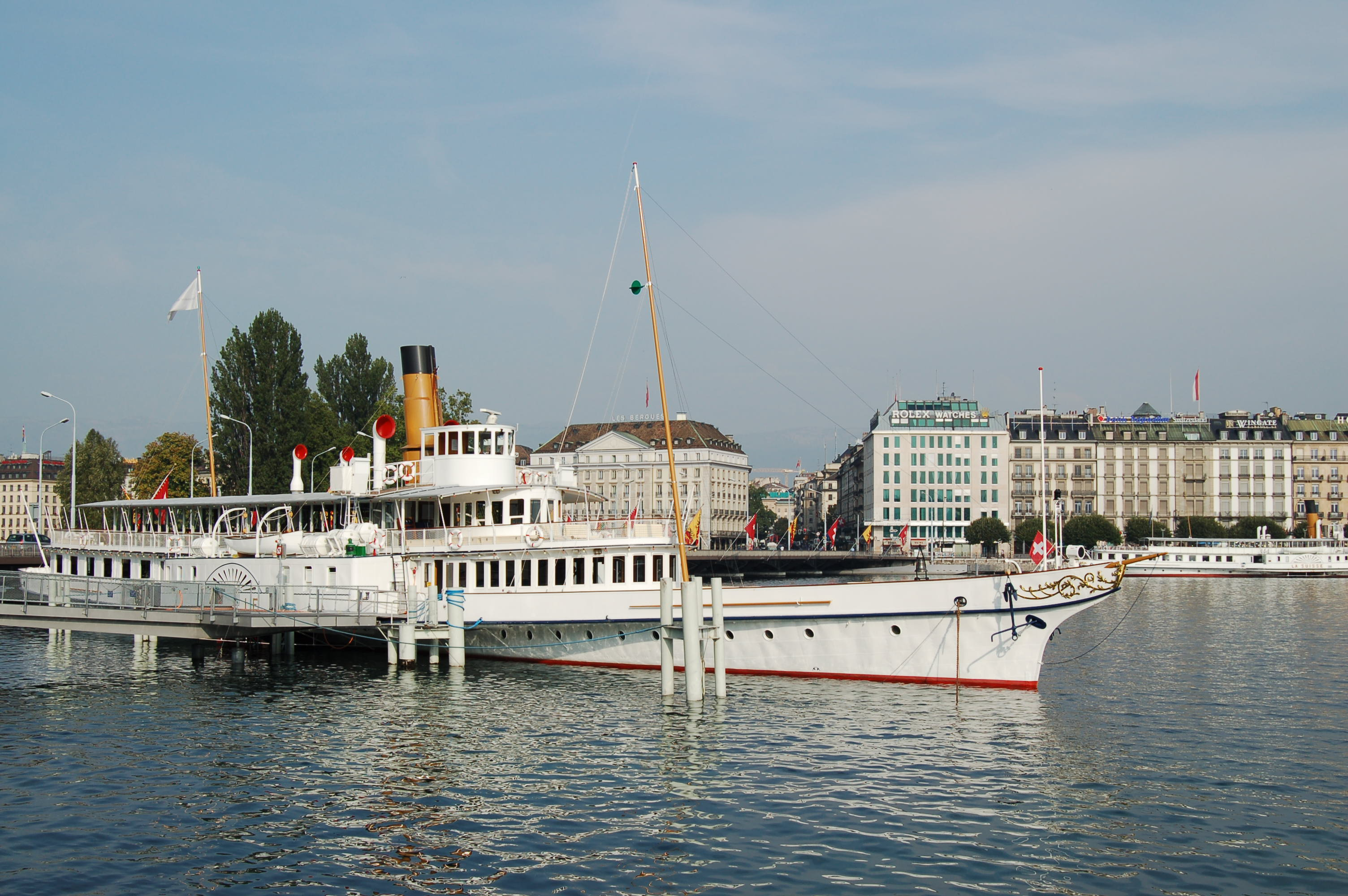 Ships on Lake of Geneva, Geneva. Front: Savoie; back: La Suisse